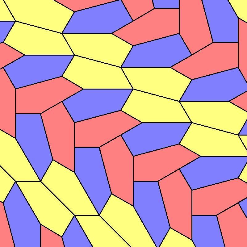 Monohedral convex pentagonal tiling, 3-isohedrally colored, by permission from